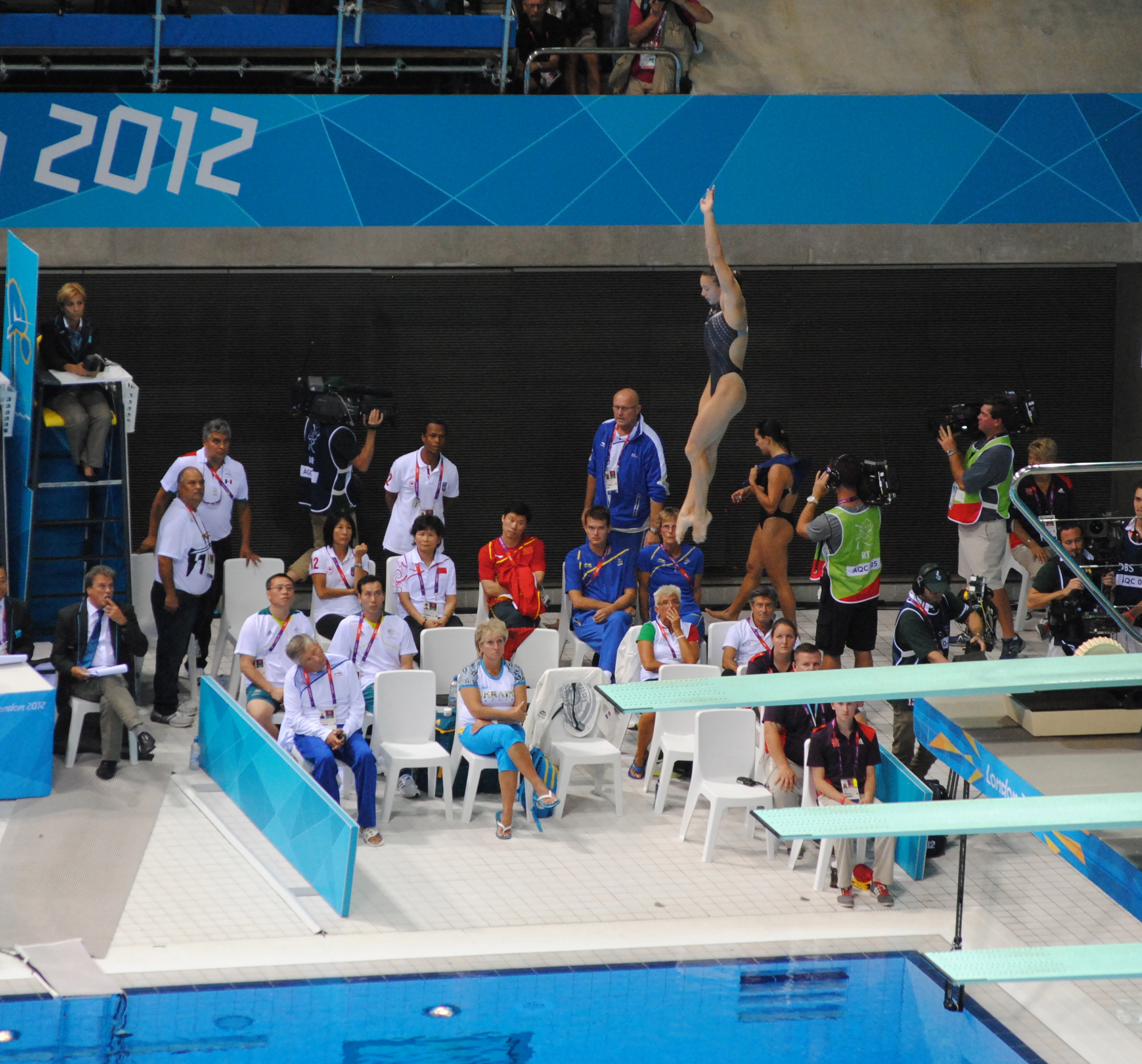 Aquatics Center, Olympic Park